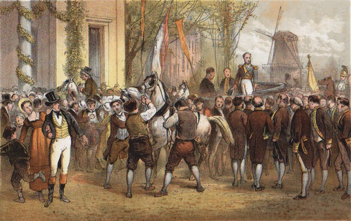 Arrival of King William I of the Netherlands in Amsterdam, December 2, 1813.